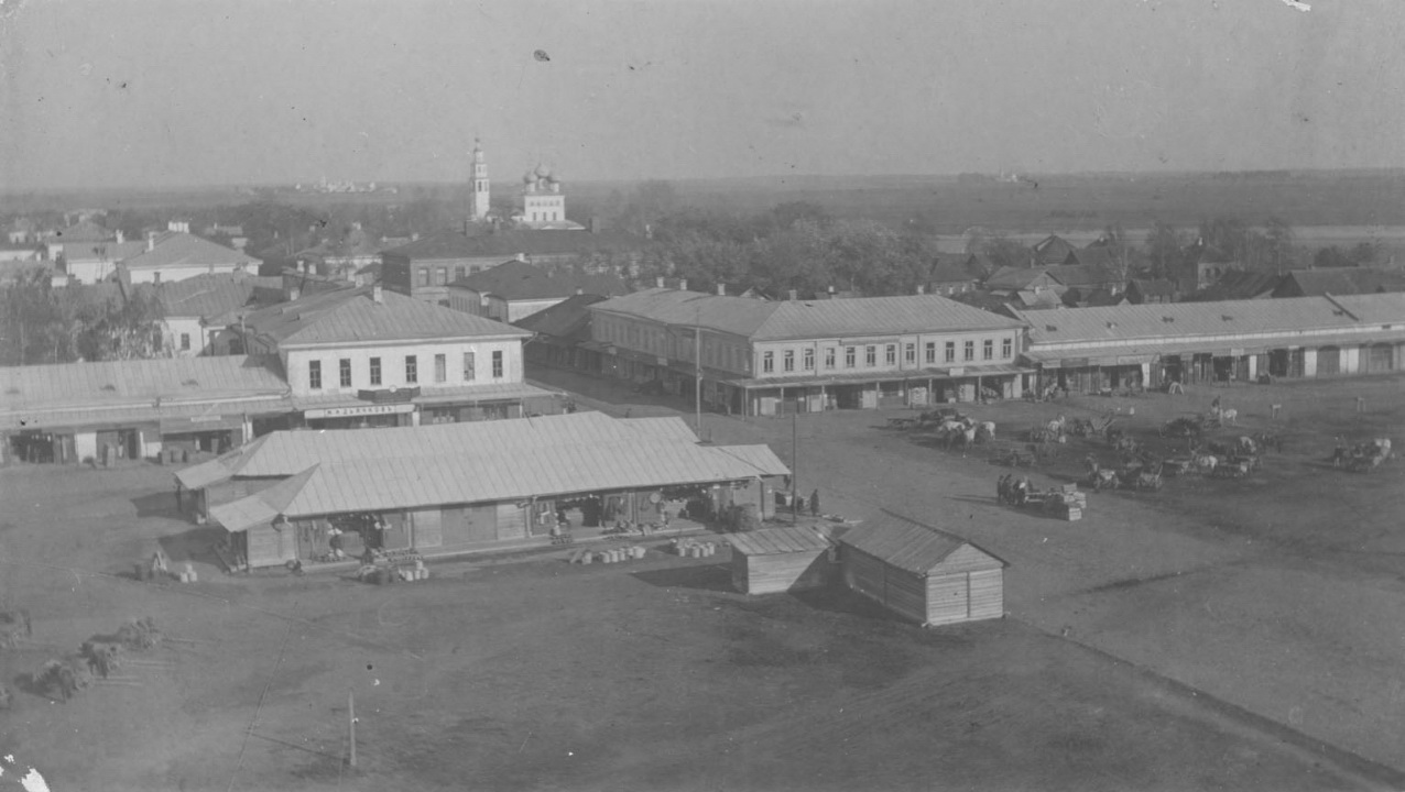 Mologa. View of the northern part of Commerce (Hay) Square.